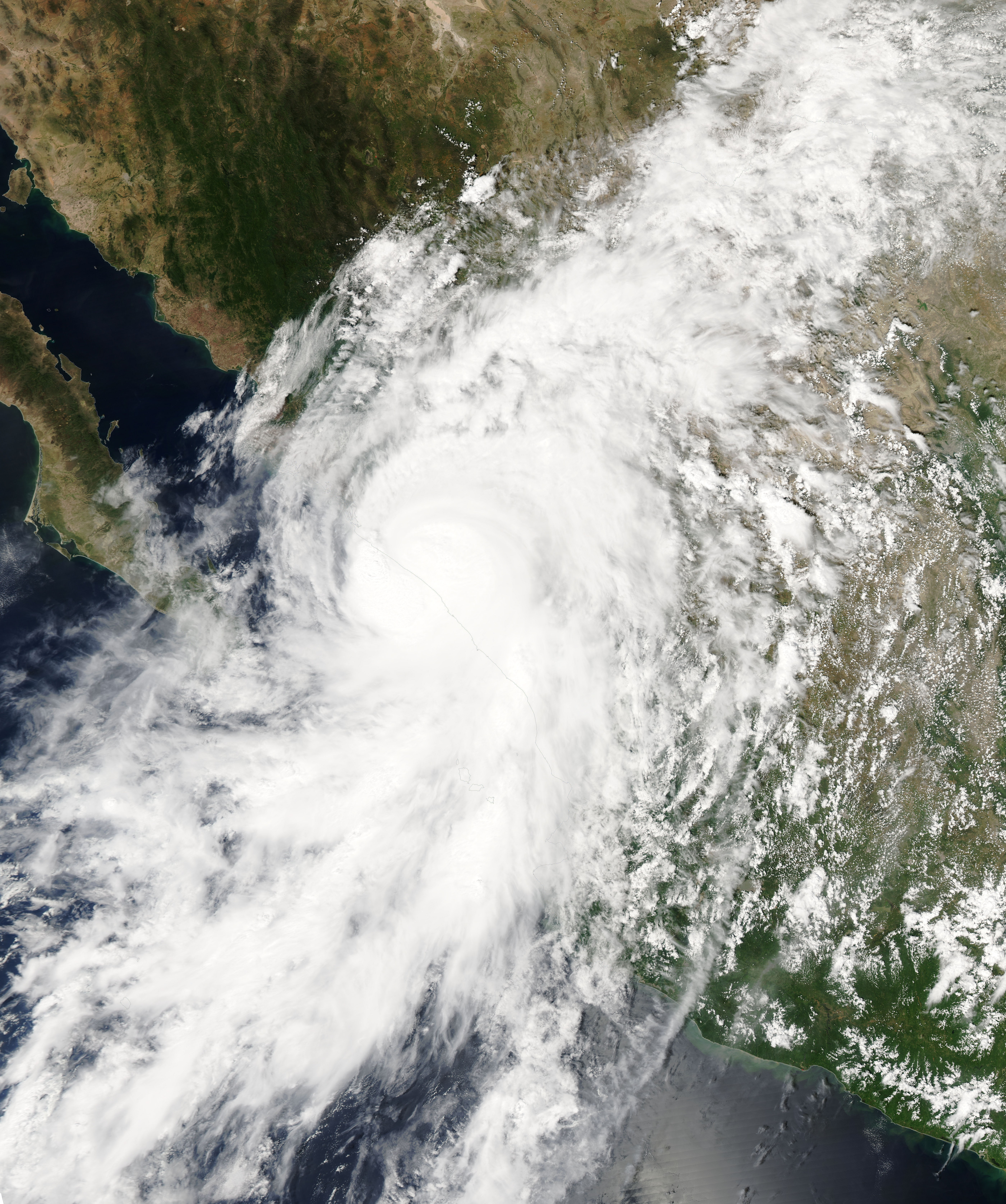 This image of Hurricane Lane was captured by the MODIS instrument on NASA's Aqua satellite at 2010 UTC on September 16, 2006. Lane had reached its peak sustained winds of 125 mph just a few hours before. Its estimated minimum pressure was also 952 mb.